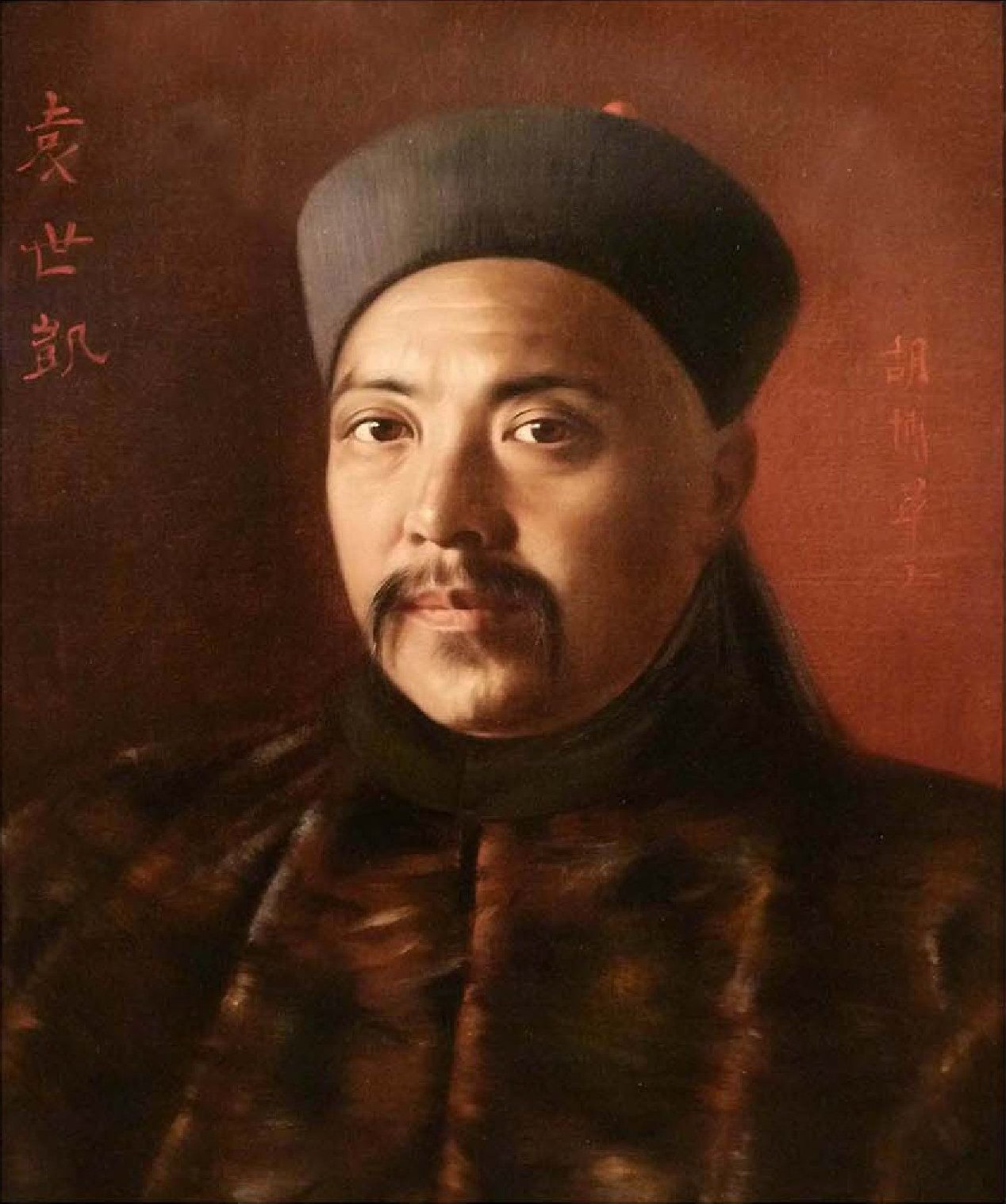 Hubert Vos's painting of Yuan Shikai, oil on canvas, 60 x 49.6 cm., Capital Museum, Beijing